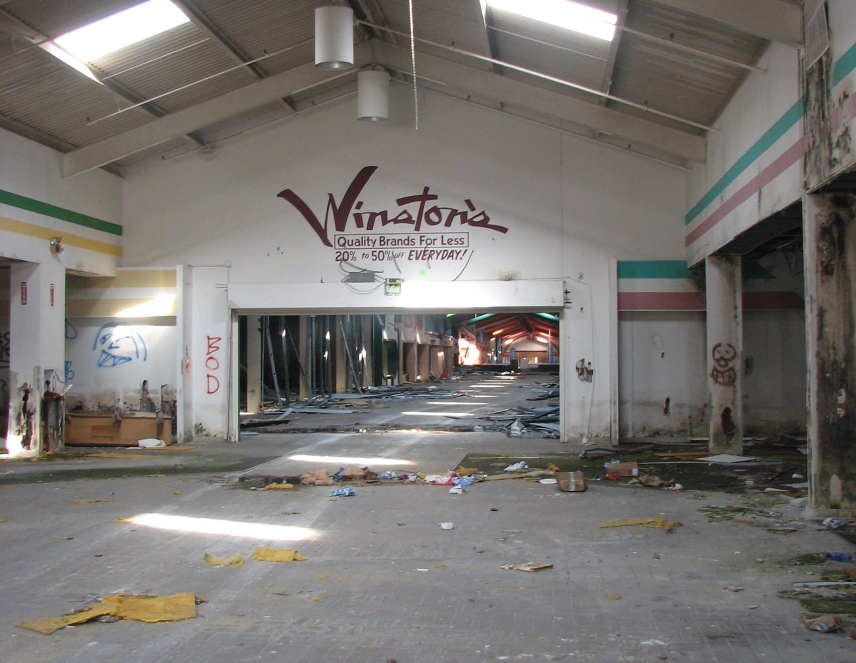 Inside an abandoned mall in Allen, Texas. The mall was the Belz Factory Outlet Mall, and was only active from 1983-1987. It has been abandoned since.